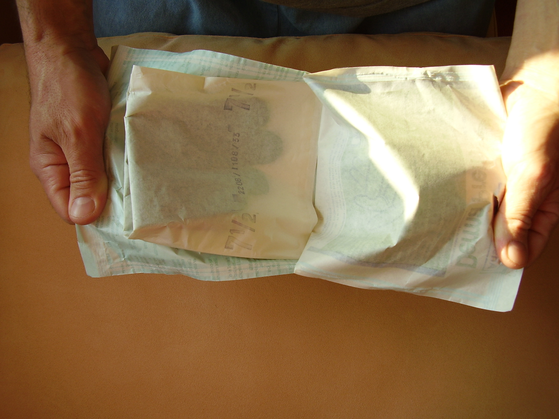 Disposable gloves; surgical gloves; chirurgische Handschuhe; steril; Latexhandschuhe